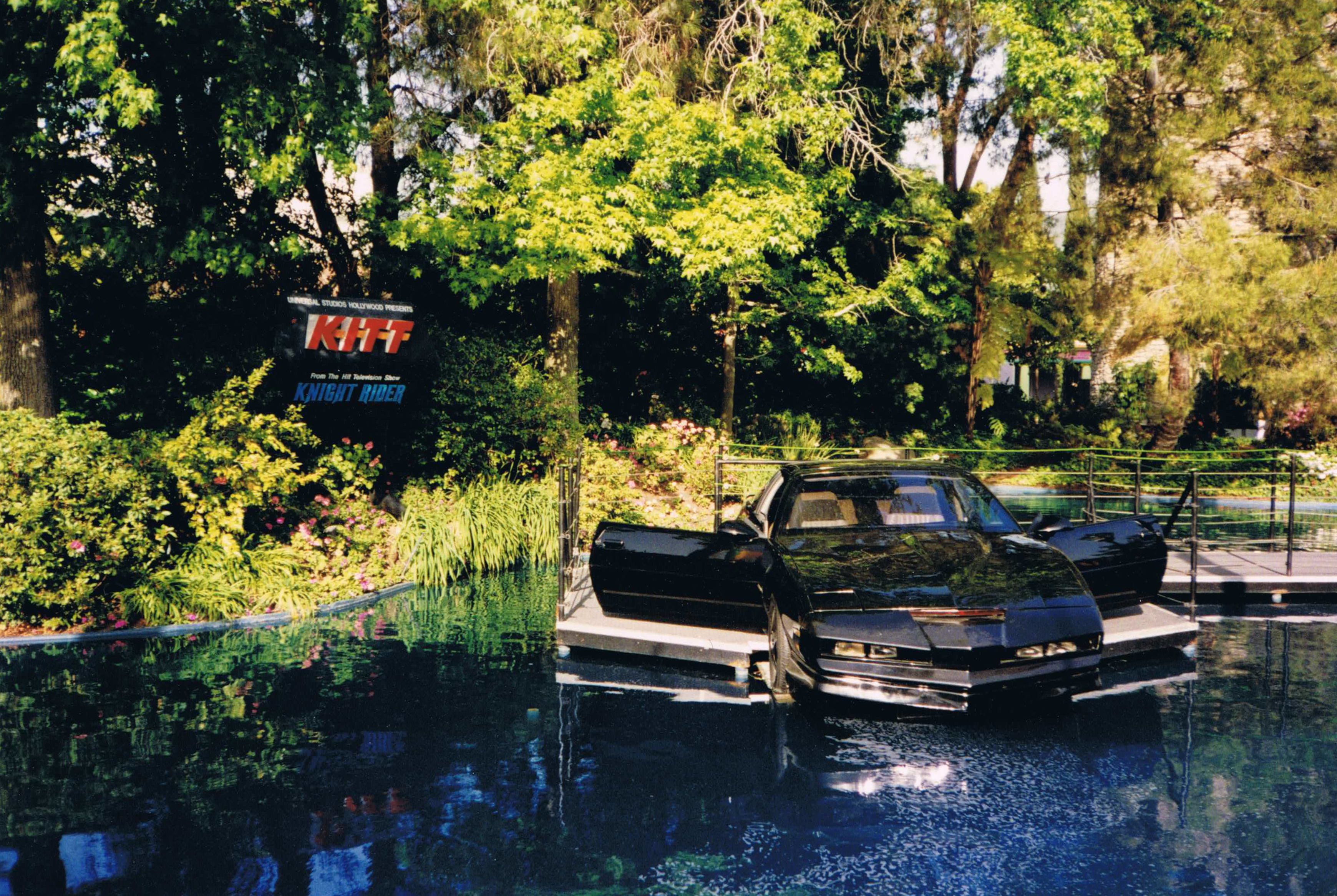 KITT at the Universal Studios Theme Park in 1993. As discussed in this video from the Jay Leno's Garage web series, the car was originally built as a stunt car for the show, with a solid roof and based on a 1984 Firebird, and without the K.I.T.T. dashboard. After the show ended, a dashboard that had been used on the insert stage when filming the show was put into the car and it was equipped with speakers and microphones for the Universal Studios exhibit (where you could sit in the car and "speak" to it). As of 2018, the car is owned by Joe Huth.